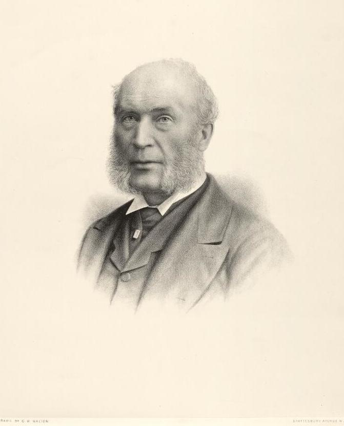 A portrait from the Welsh Portrait Collection at the National Library of Wales. Depicted person: Warington Wilkinson Smyth – British geologist